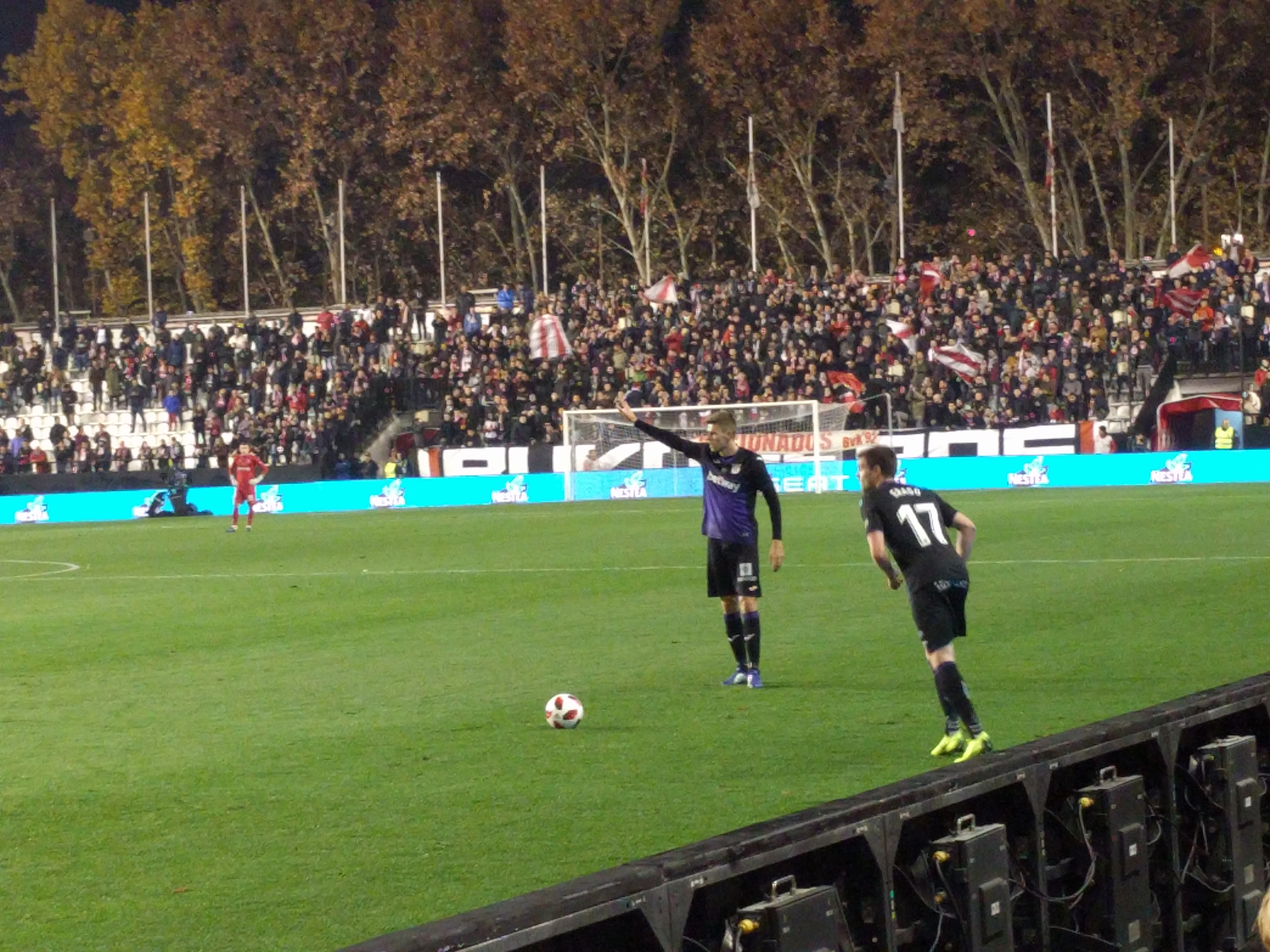 Gerard Gumbau and Javier Eraso in the match of Copa del Rey Rayo 0:1 Leganés, December 4th 2018